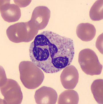 Segmented Neutrophilic Granulocyte surrounded by Erythrocytes.